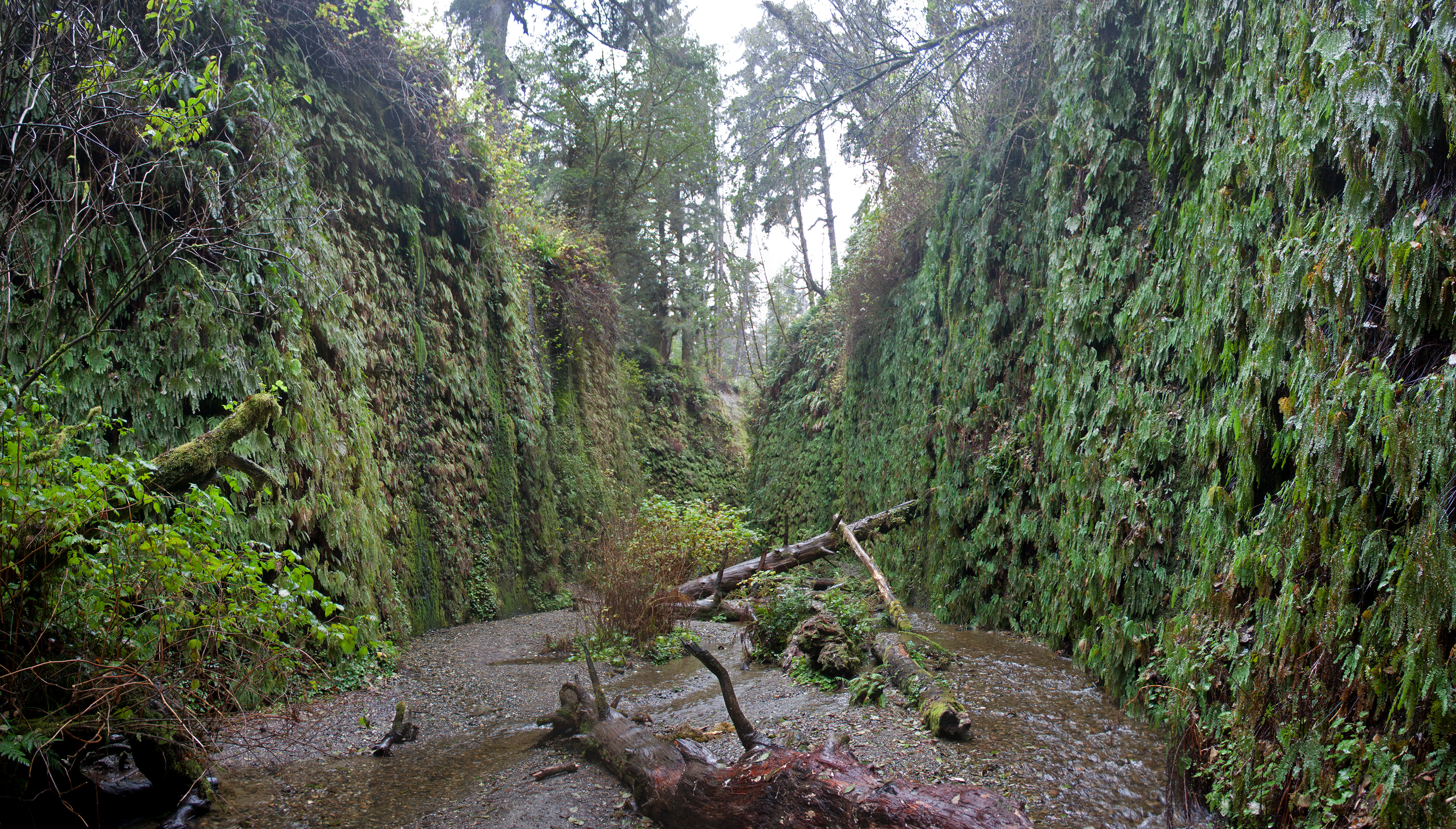 View of Fern Canyon in Prairie Creek Redwoods State Park, California